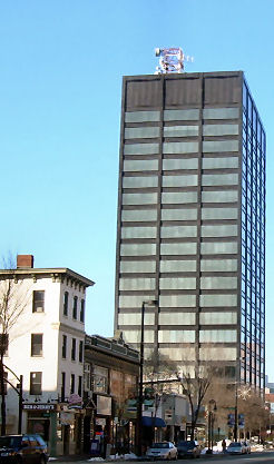 Picture of Hampshire Plaza in downtown Manchester, NH